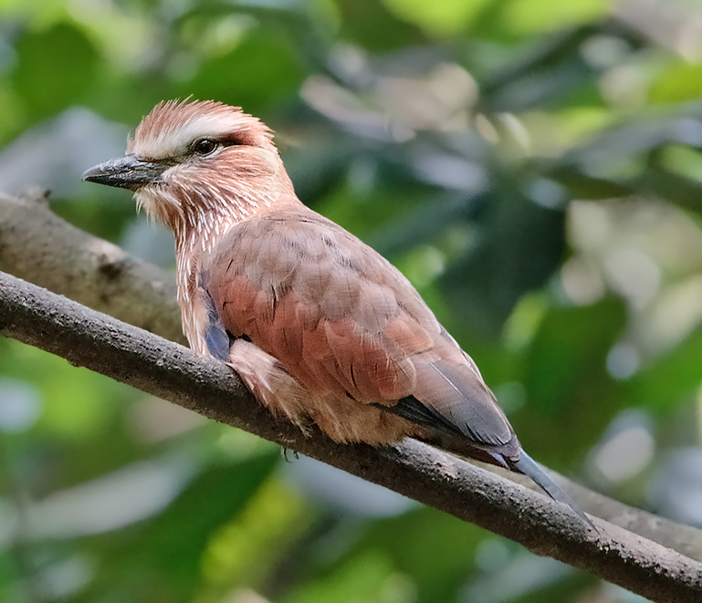 Coracias naevia